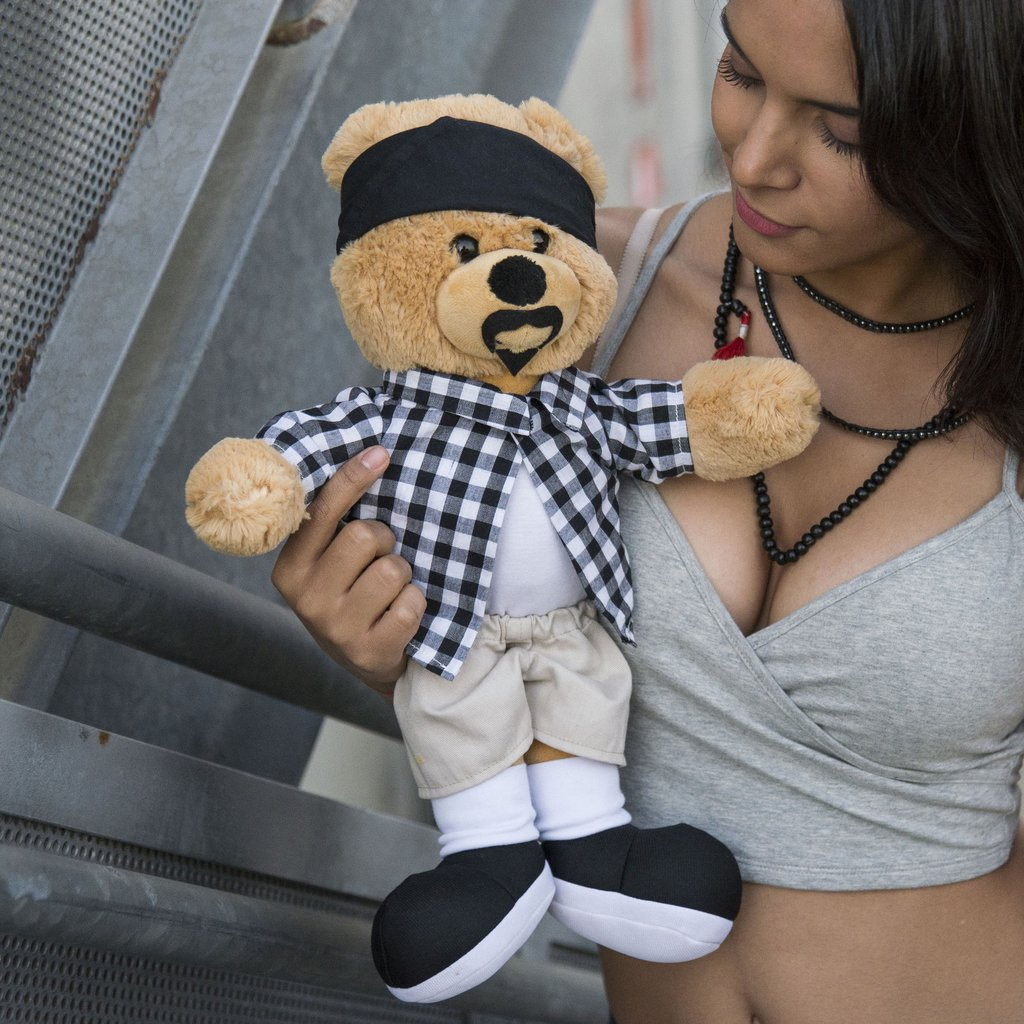 A Representation of The Modern Day Cholo